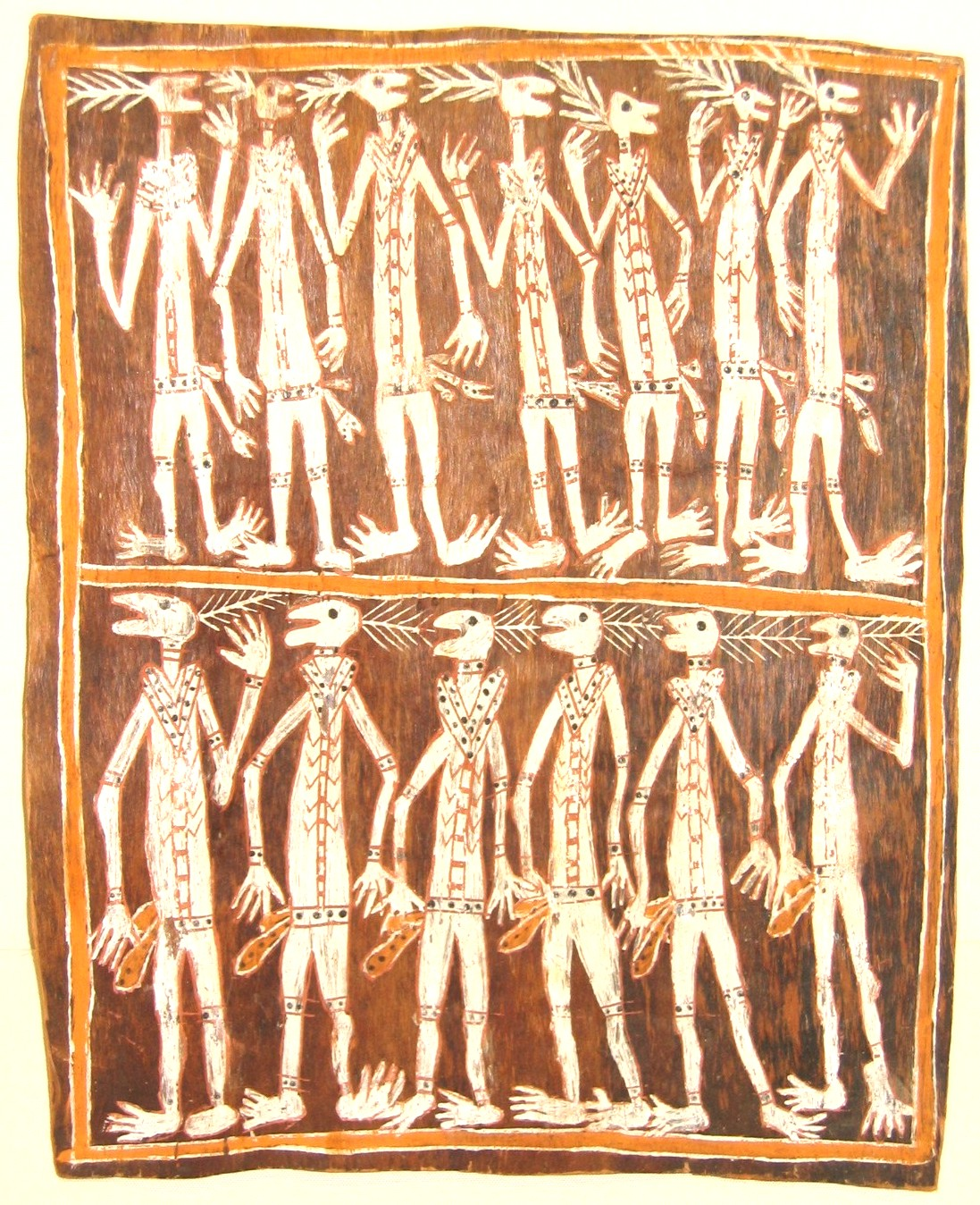 Painted bark, from Australia